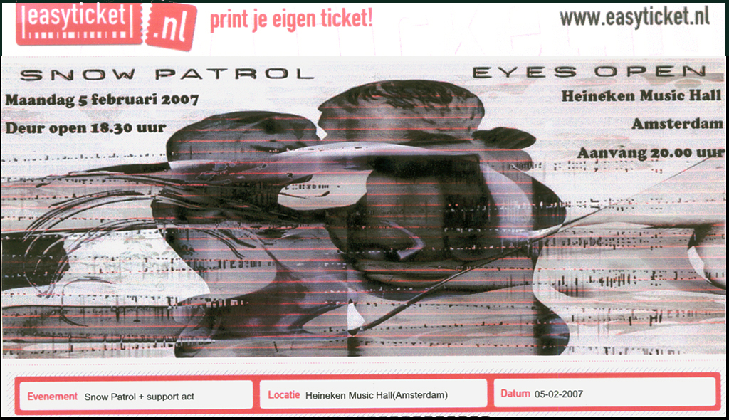 Ticket for the Snow Patrol concert at the Heineken Music Hall Amsterdam February 5, 2007